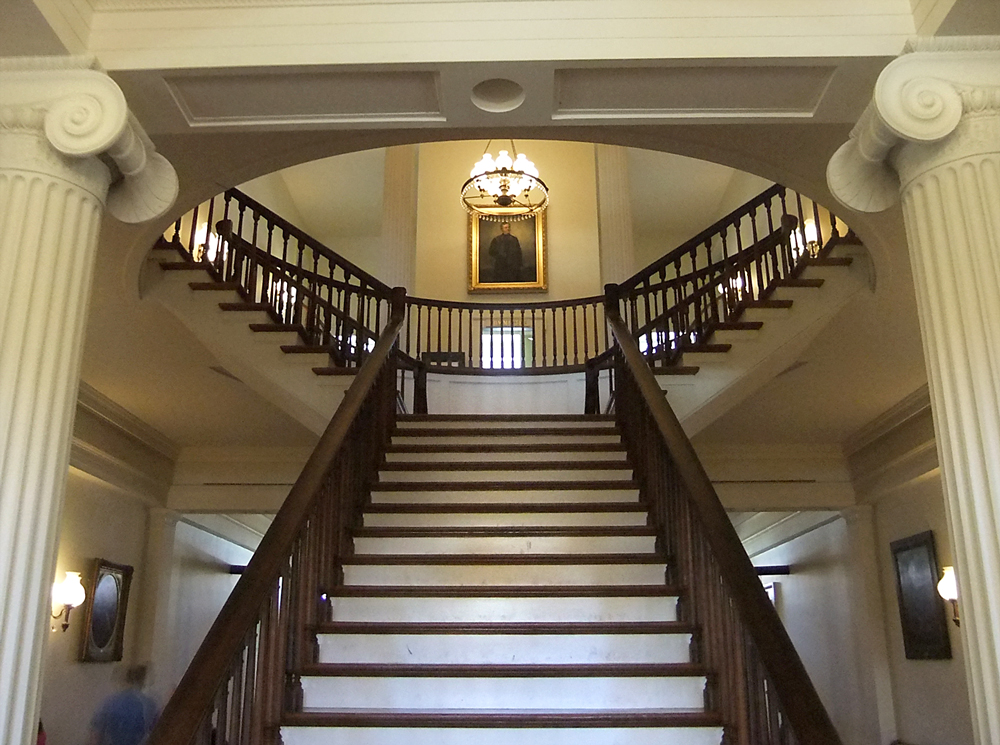 Interior and stairs of old Illinois State Capitol building in Springfield, Illinois